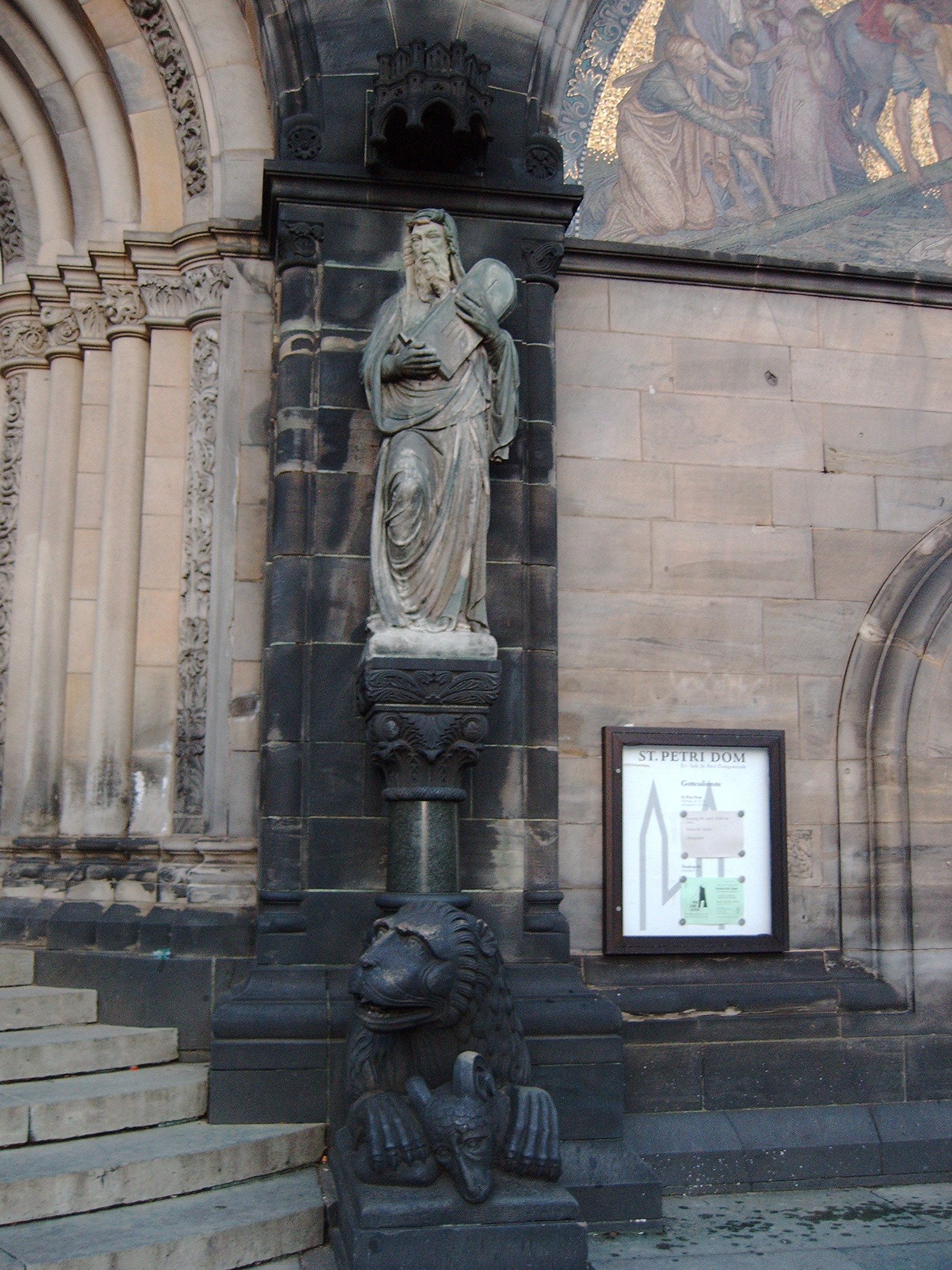 Lutheran Cathedral of St Peter's in Bremen: Statue of Moses at the western façade (2nd left, below it a lion with a goat) Images DownTown - Bremen City in Germany.